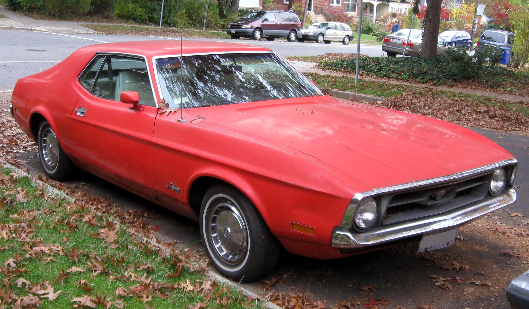 1971-1972 Ford Mustang photographed in Washington, D.C., USA.